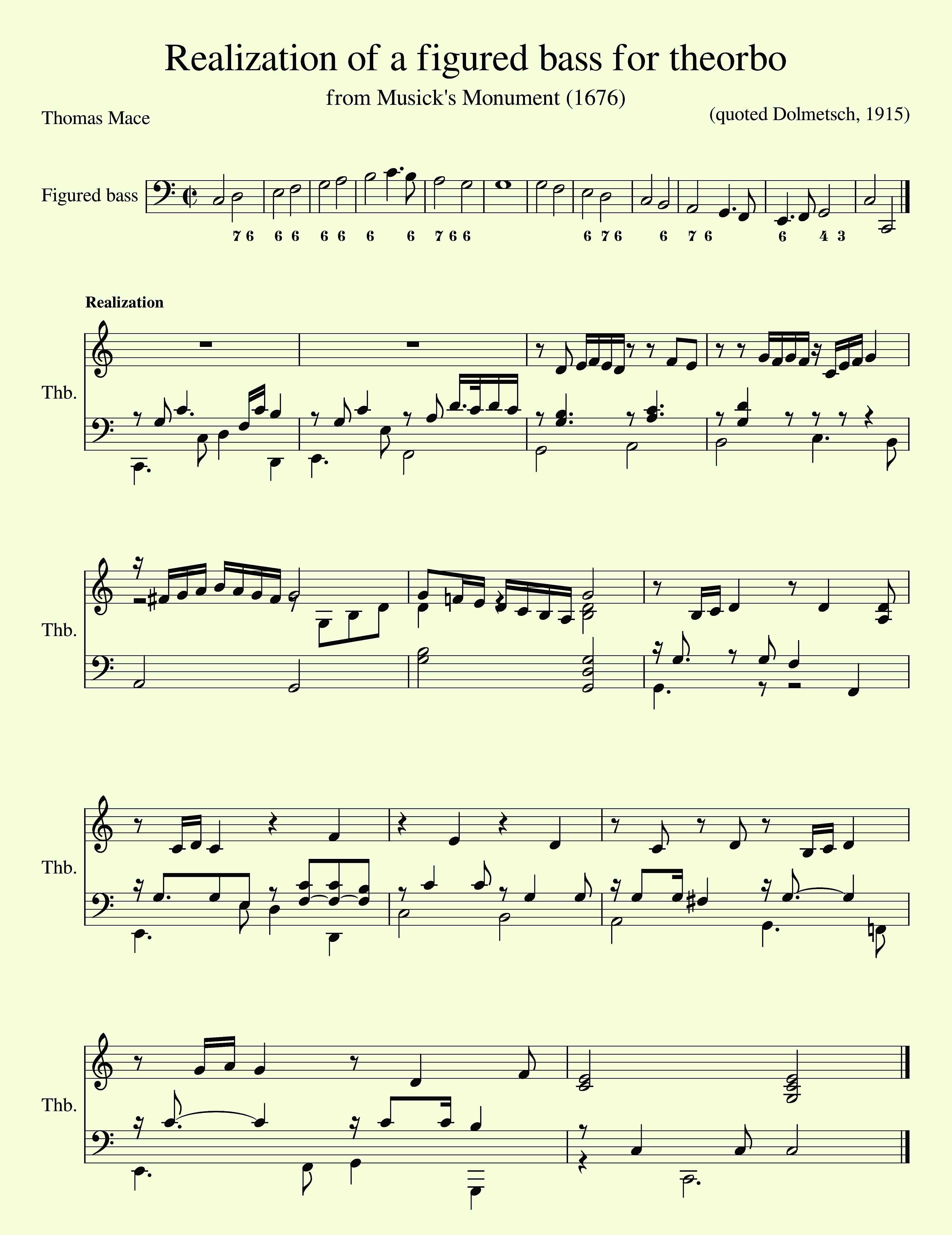 A figured bass, and a realization for theorbo, by 'Thomas Mace, 'from 'Musick's Monument, 1676